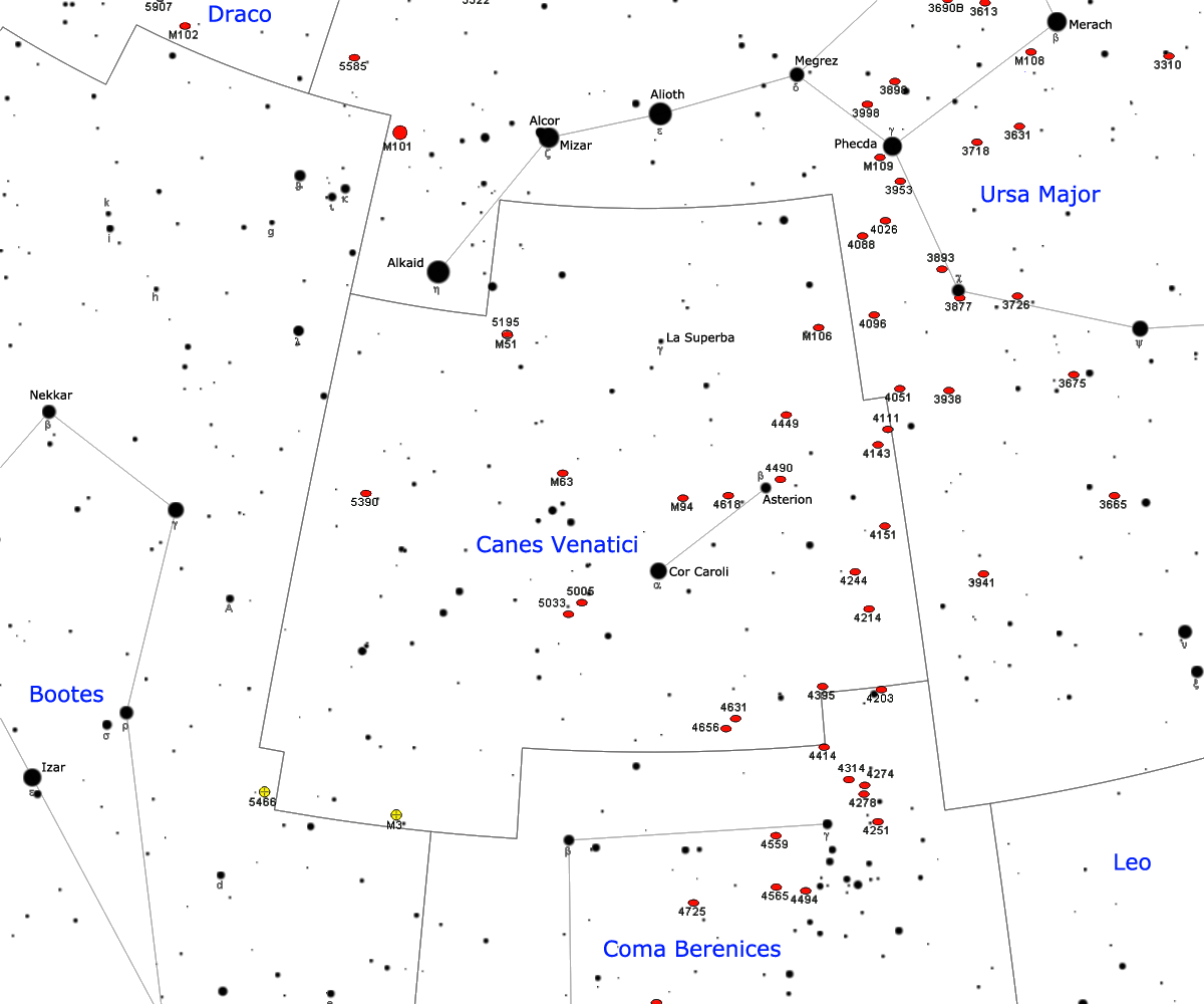 Map of canes Venatici